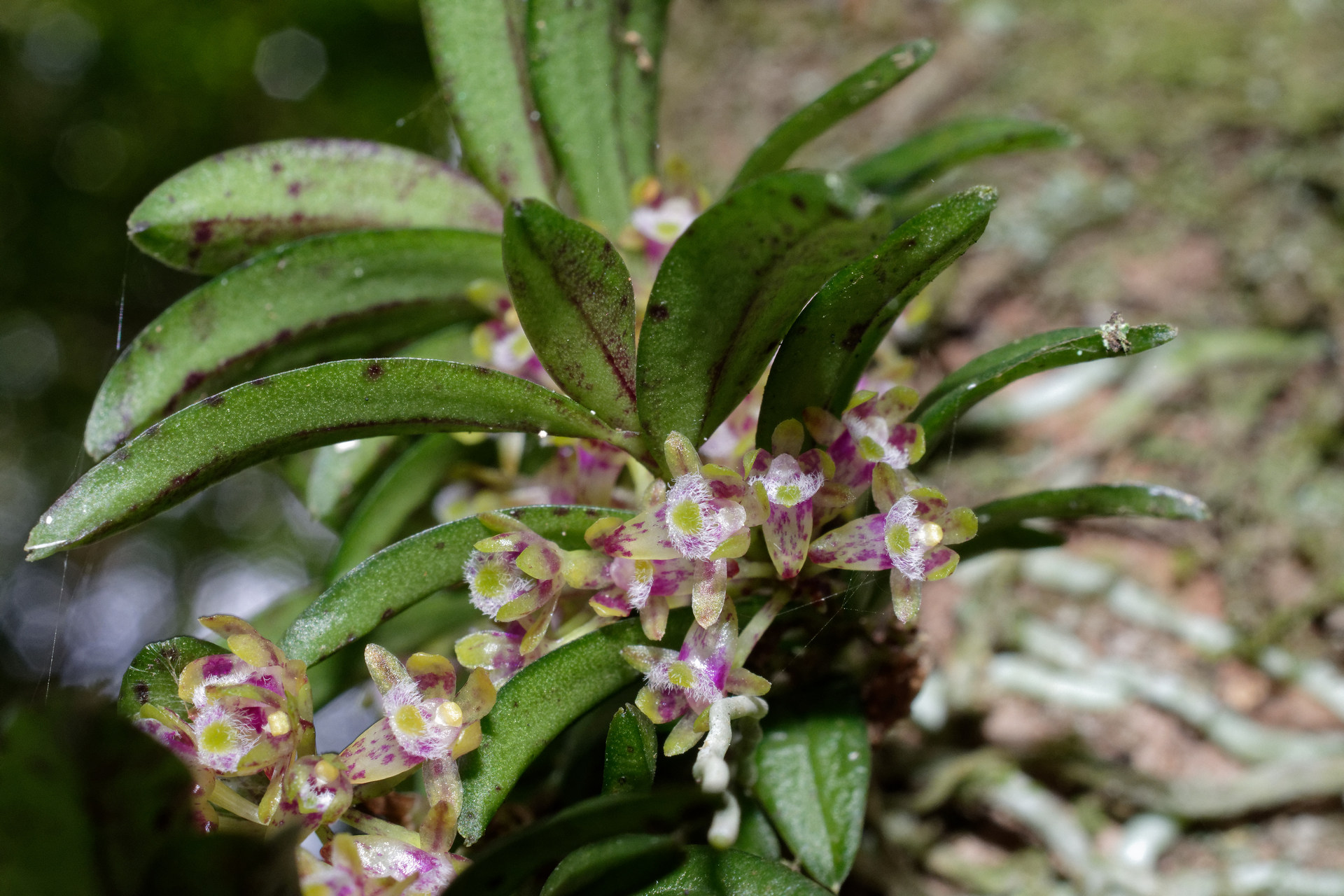 Gastrochilus raraensis inflorescens